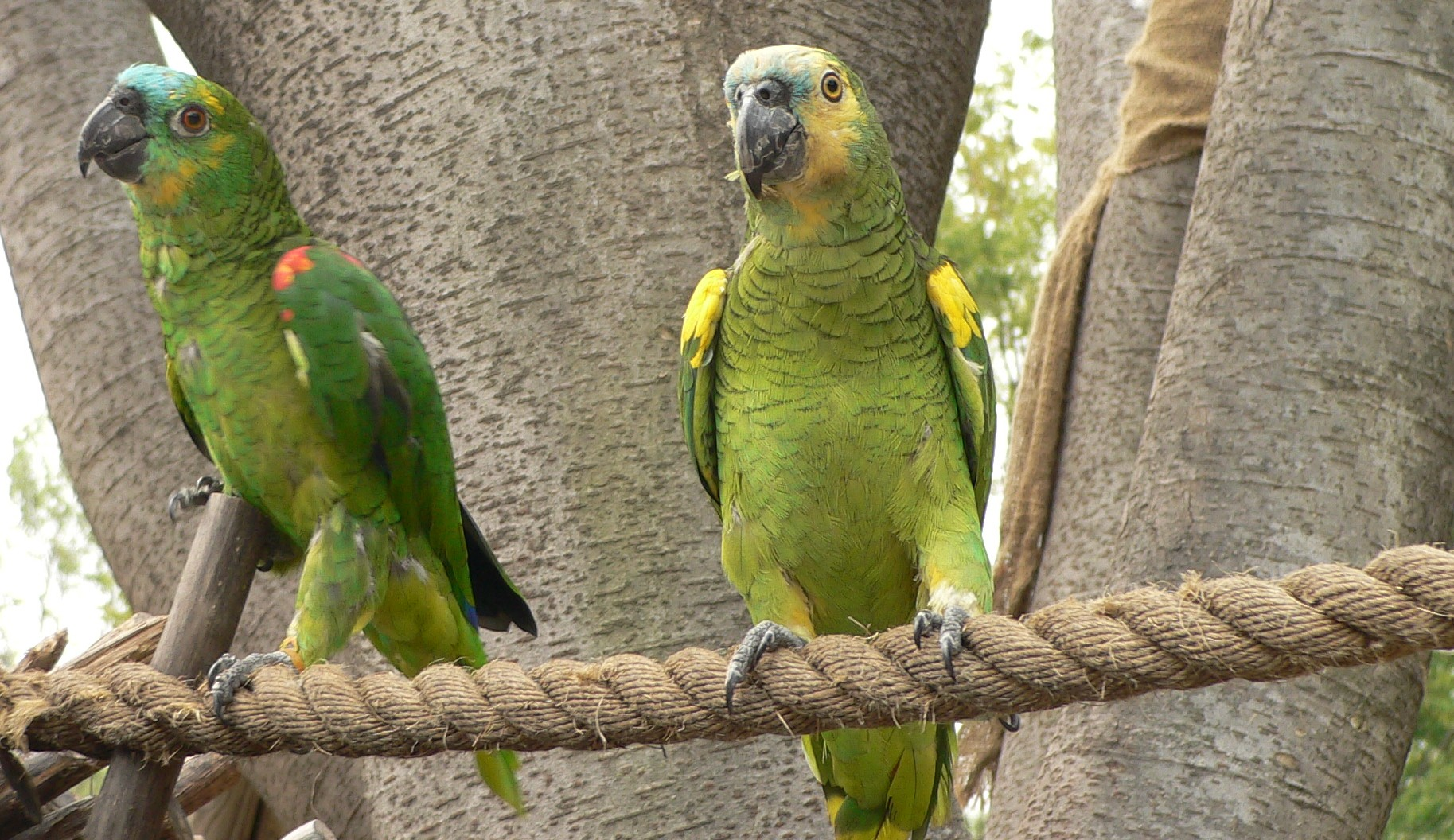 Blue-fronted Amazon at Everland, the biggest theme park of South Korea located in Yongin, Gyeonggi Province.